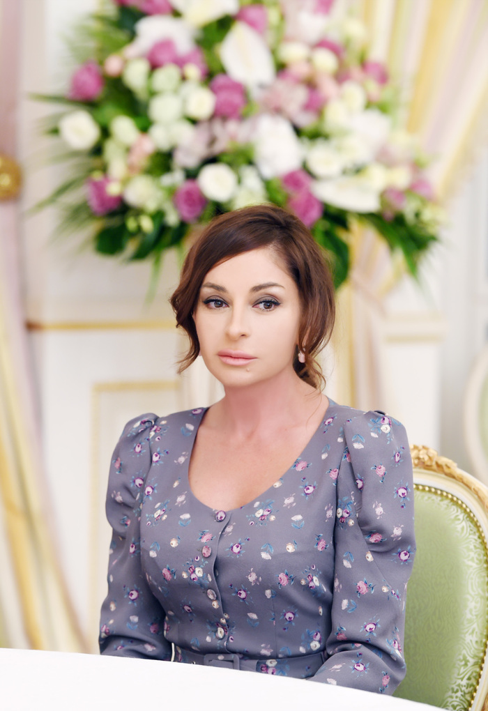 Award ceremony was held as part of Italian President's official visit to Azerbaijan